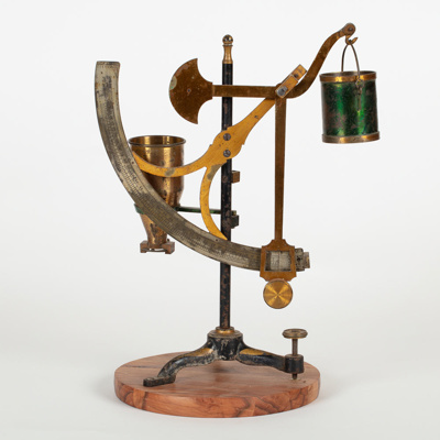 A Chondrometer pendulum scale created to measure the weight density of grain bushels. Made by Bryan Corcoran in c1870's